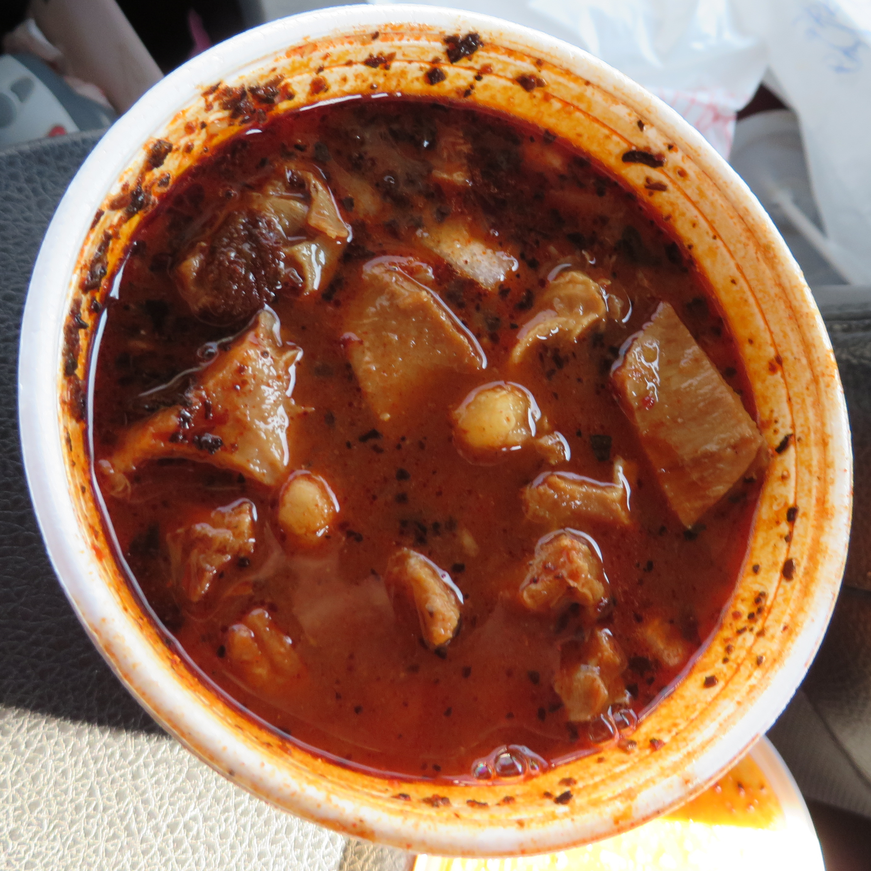 Menudo, a traditional Mexican soup, at Villa Arcos Homemade Flour Tortillas in Houston, TX.